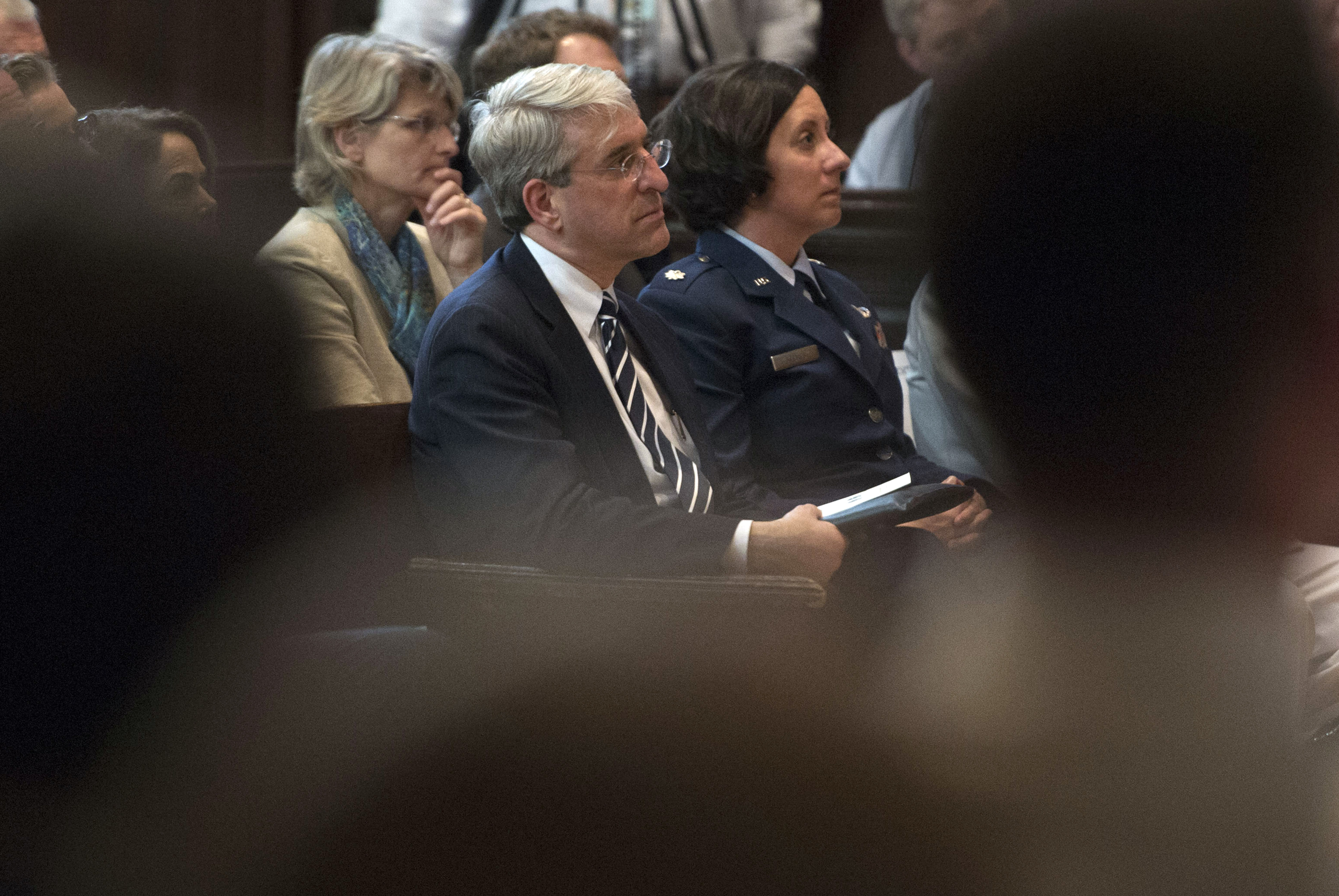 Yale University President Peter Salovey listen as Secretary of Defense Ash Carter delivers remarks at the Yale University Reserve Officers' Training Corps Commissioning Ceremony in New Haven, Conn. May 23, 2016 . (Photo by Senior Master Sgt. Adrian Cadiz)(Released)